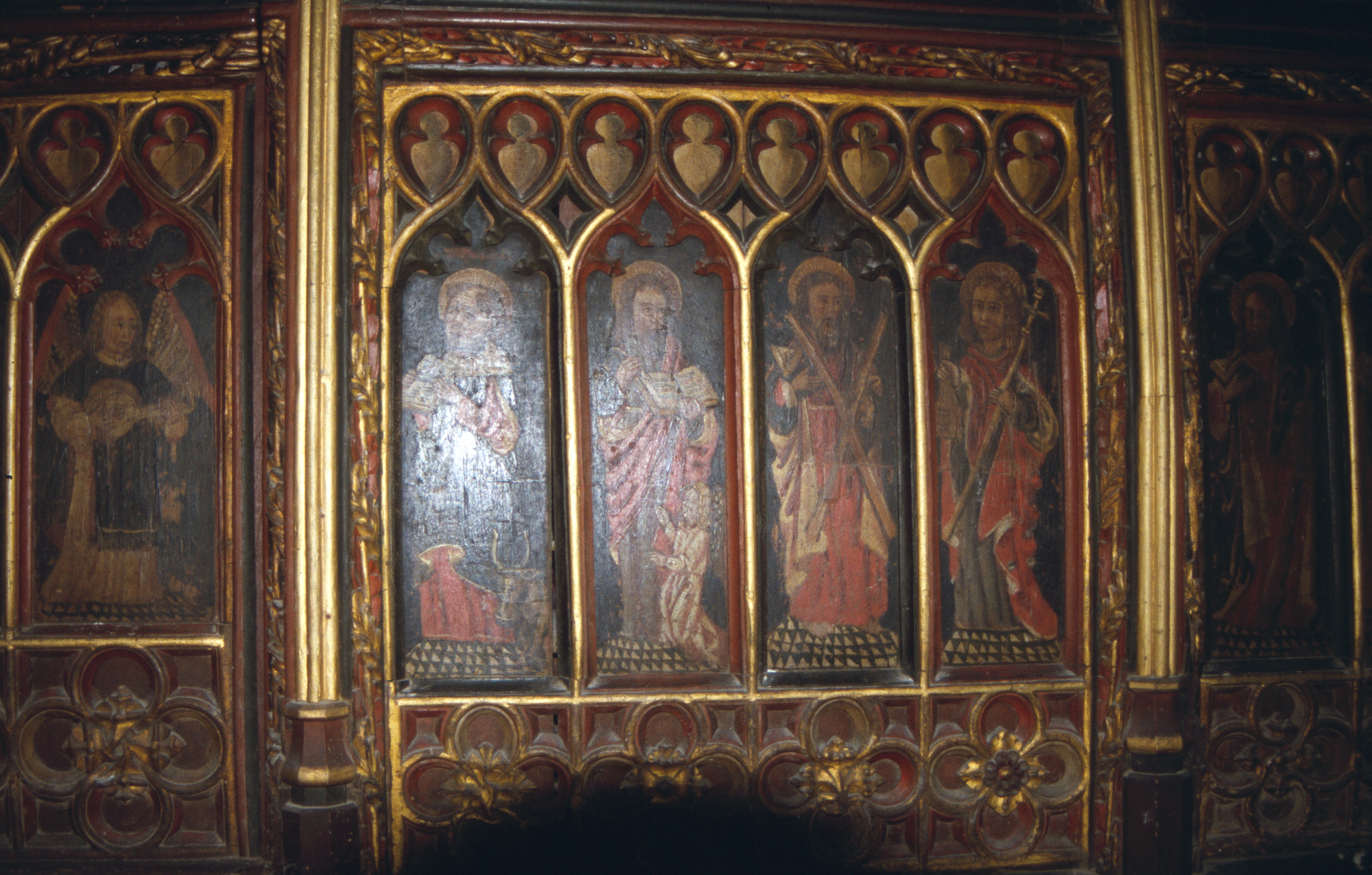 Detail of the 15th-century rood screen inside Holy Trinity Church, Torbryan, Devon